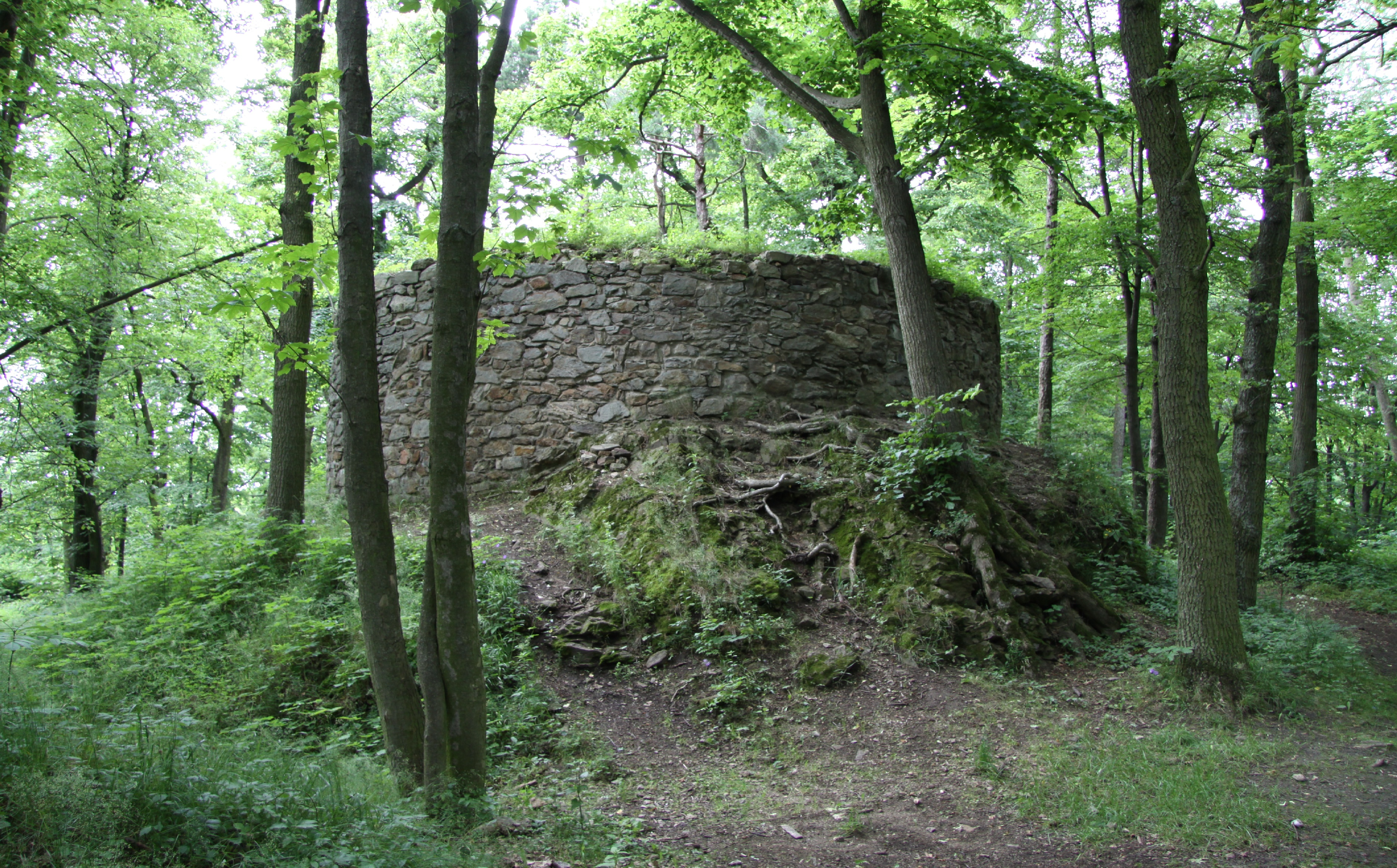 Ruins of Prácheň Castle near Horažďovice, Klatovy District, Czech Republic. This photograph was taken within the scope of the 'Czech Municipalities Photographs' grant.